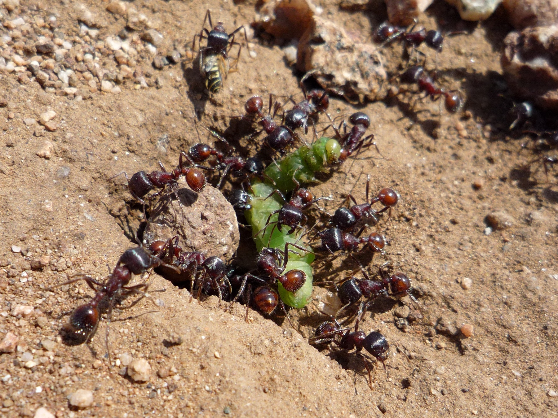 Ants Eating A Caterpillar, These ants are harvester ants of the genus Pogonomyrmex, possibly P. rugosus.